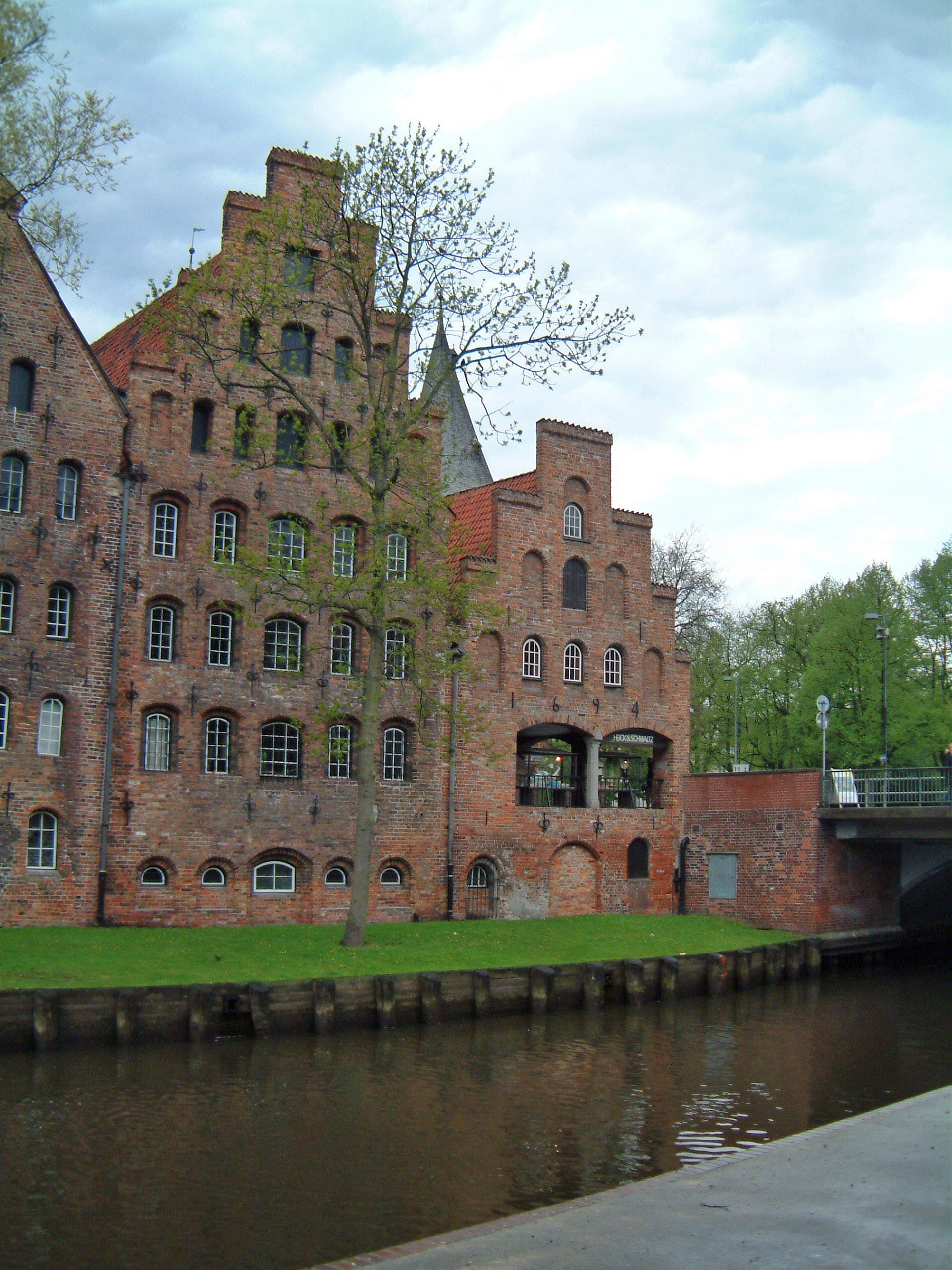 Salzspeicher on the river Trave in Lübeck